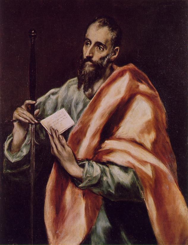 St. Paul by El Greco, c. 1608-1614. Originally taken from